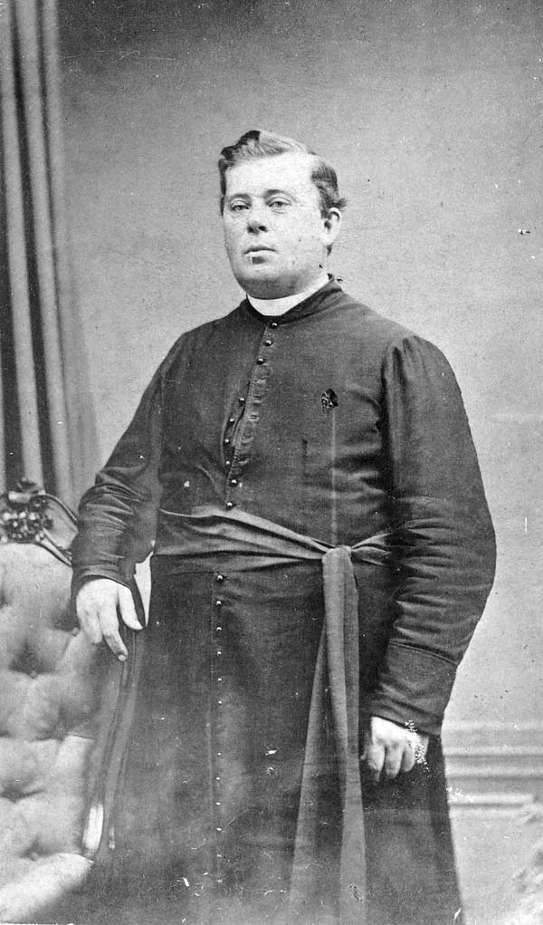 Portrait of Mgr. J.-Théophile Allard. P48-33 Arthur Gallien collection, Provincial Archives of New Brunswick.